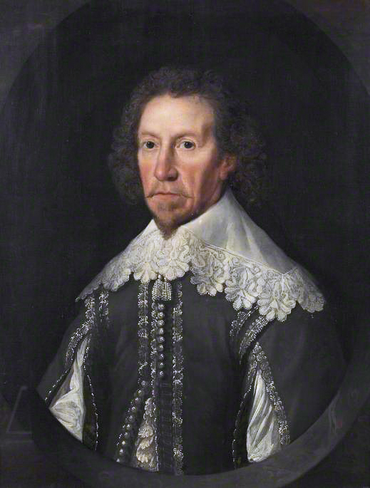 Johnson, Cornelius; Vincent Denne; Cheltenham Art Gallery & Museum